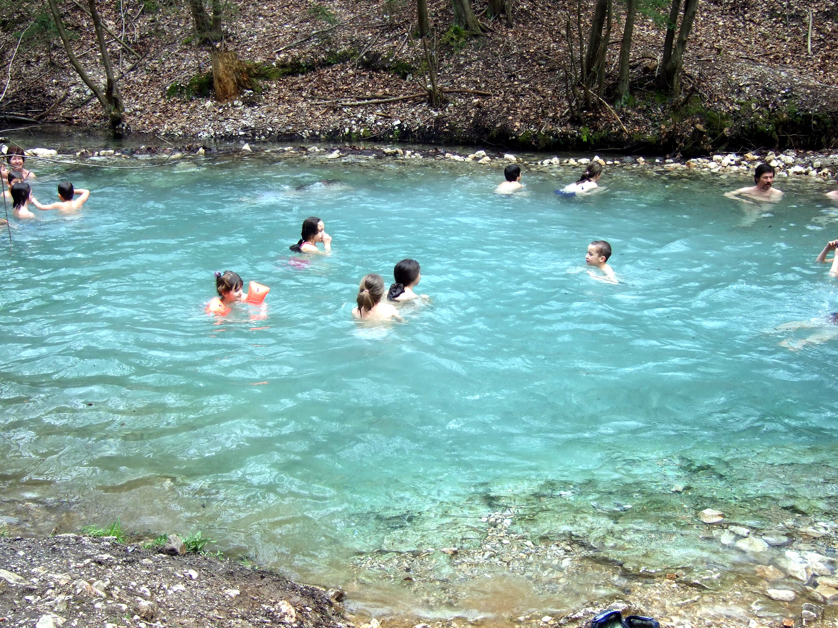 Maibachl, natural monument in Warmbad, municipality Villach, Carinthia, Austria, EU.